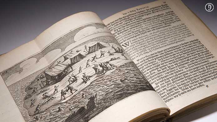 Ongeluckige voyagie van het schip Batavia, uytgevaren onder't beleydt van den E. François Pelsaert, na Oost-Indien, en gebleven is op de Abrollos van Frederick Houtman ... : verhalende 't verongelucken des schips / en de grouwelijcke moozdery onder 't scheeps-volck / op 't eylandt Bataviers Kerckhof, nevens de justitie gedaen aen de moetwillige in de jaren 1628 en 1629, 1648, Francisco Pelsaert, State Library of New South Wales MRB/ 985/ P